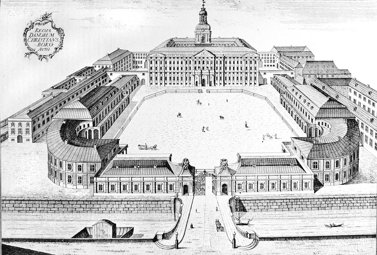 The first Christiansborg Palace before it was ruined by a fire in 1794. View over the show grounds behind the castle.